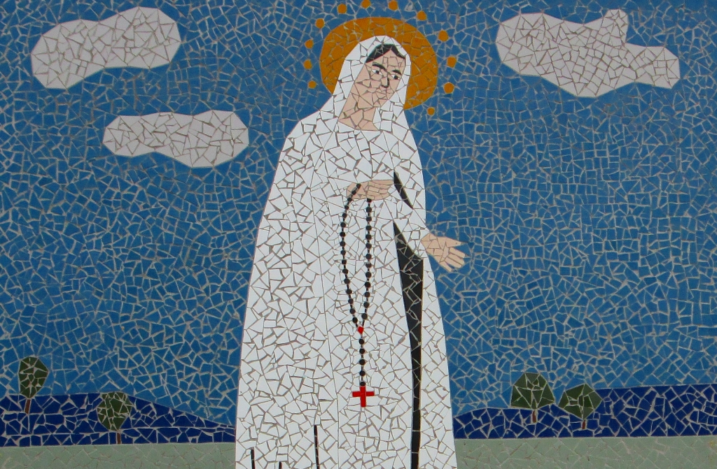 Mosaico